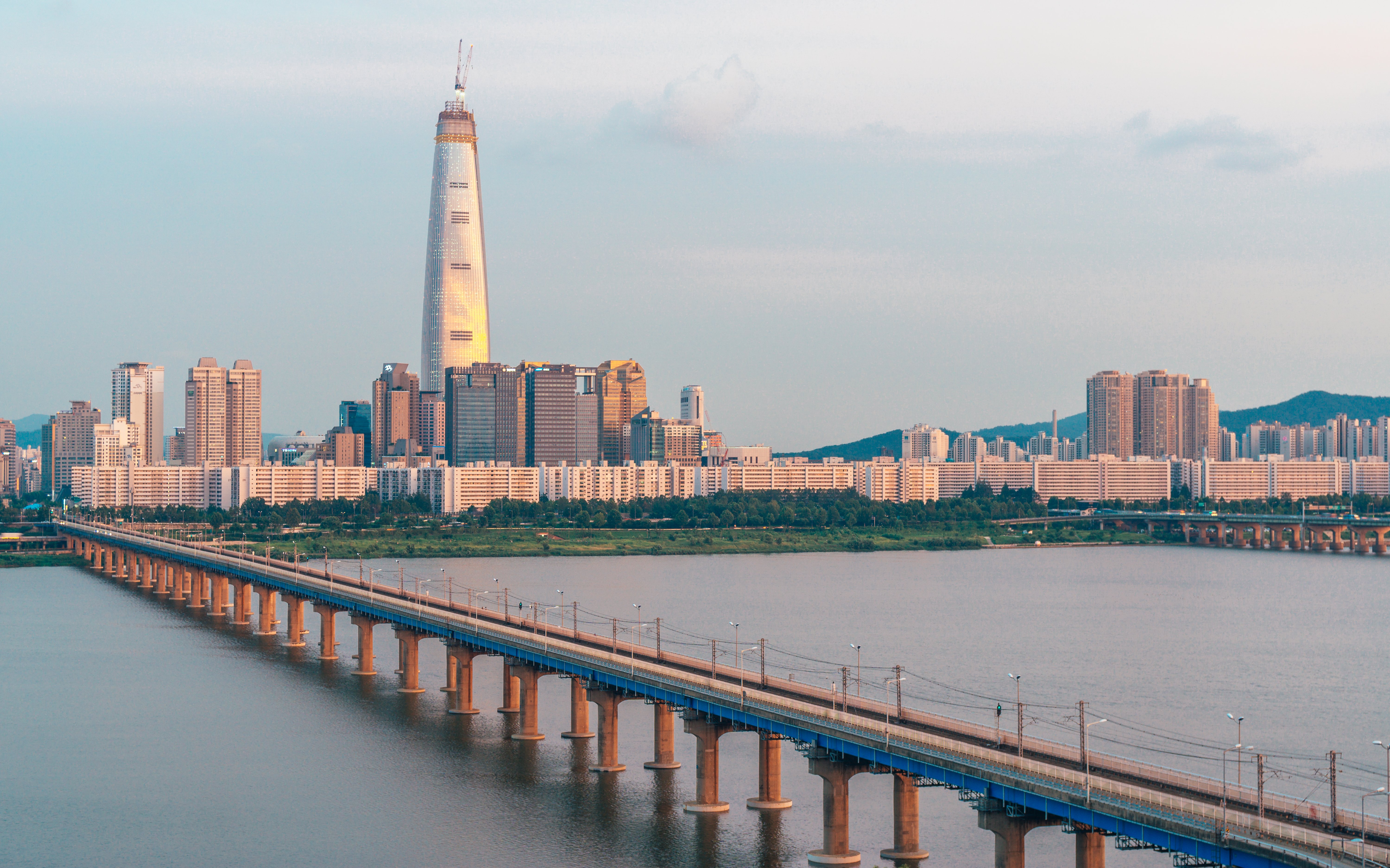 Lotte World Tower and Jamsil Railway Bridge at sunset